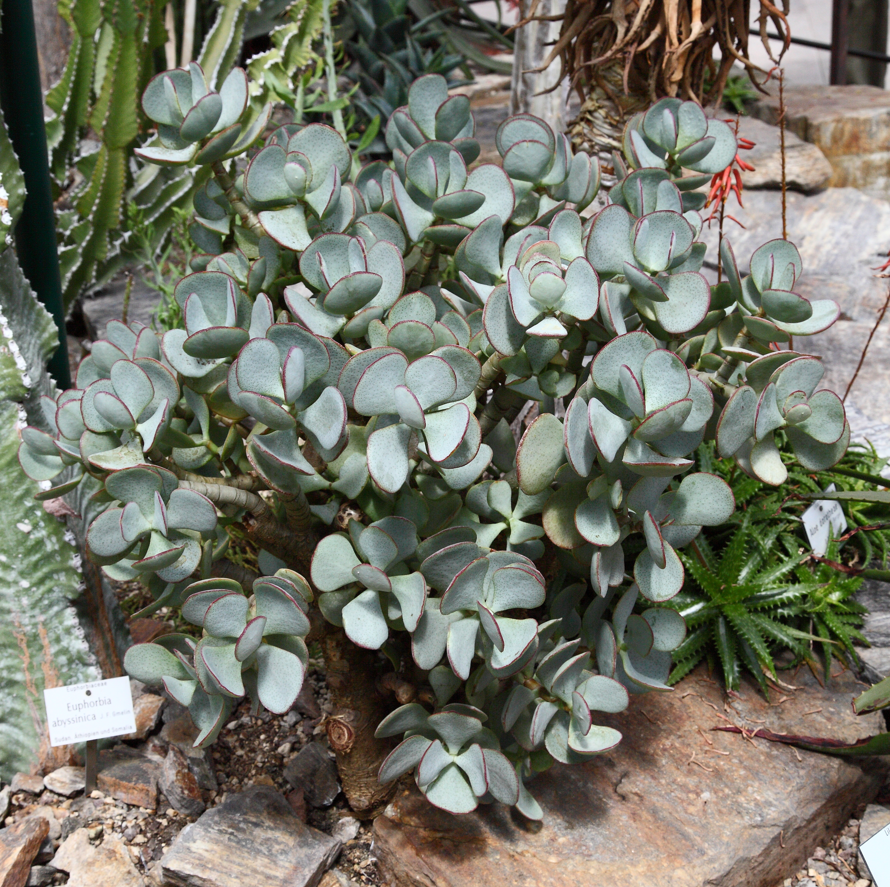 Crassula arborescens, Botanic Garden, Munich, Germany